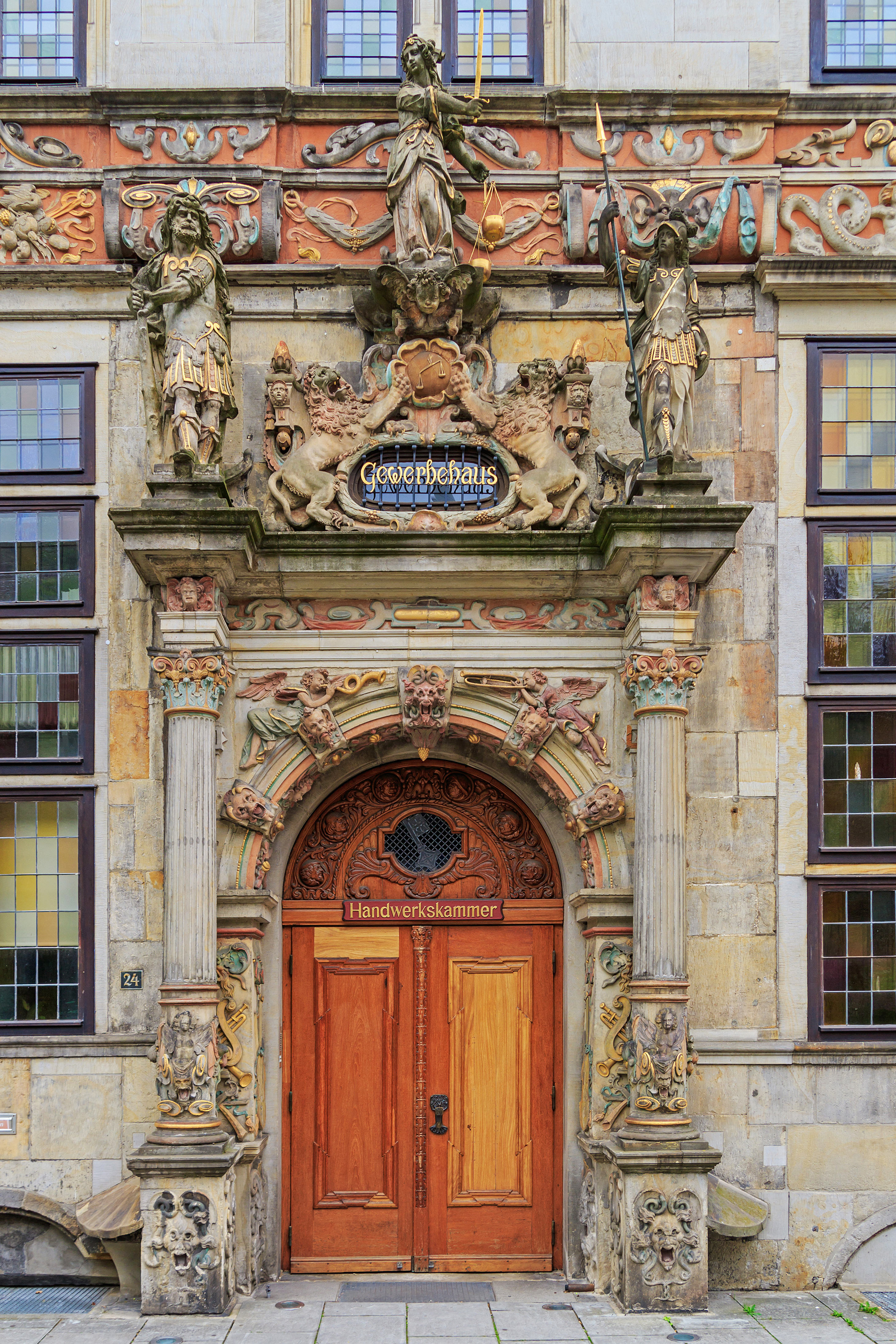 Portal of the Gewerbehaus in Bremen, Germany